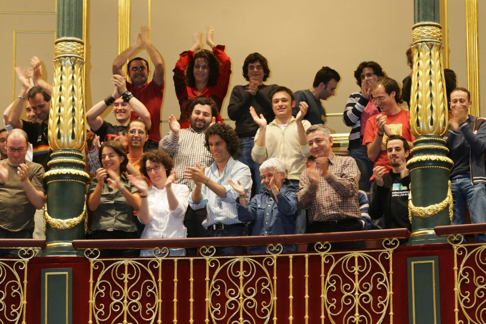 People at Congress celebrating the day the law that permits same-sex marriage in Spain was approved.